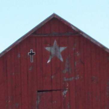 Barn missing its barnstar